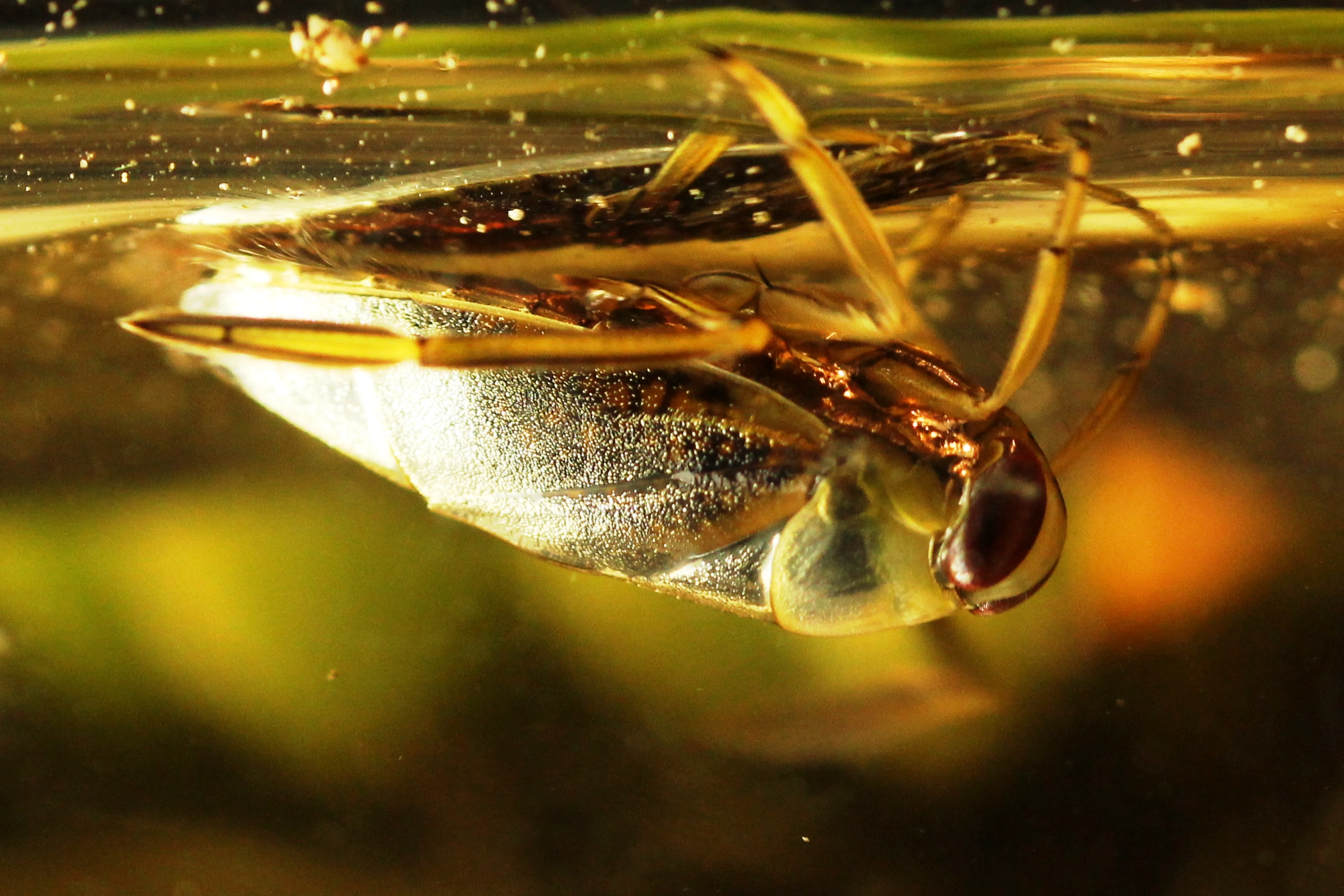 This picture shows a submerged backswimmer. The silvery shine is caused by light reflection at the interface of the air layer kept by the elytron and the surrounding water.